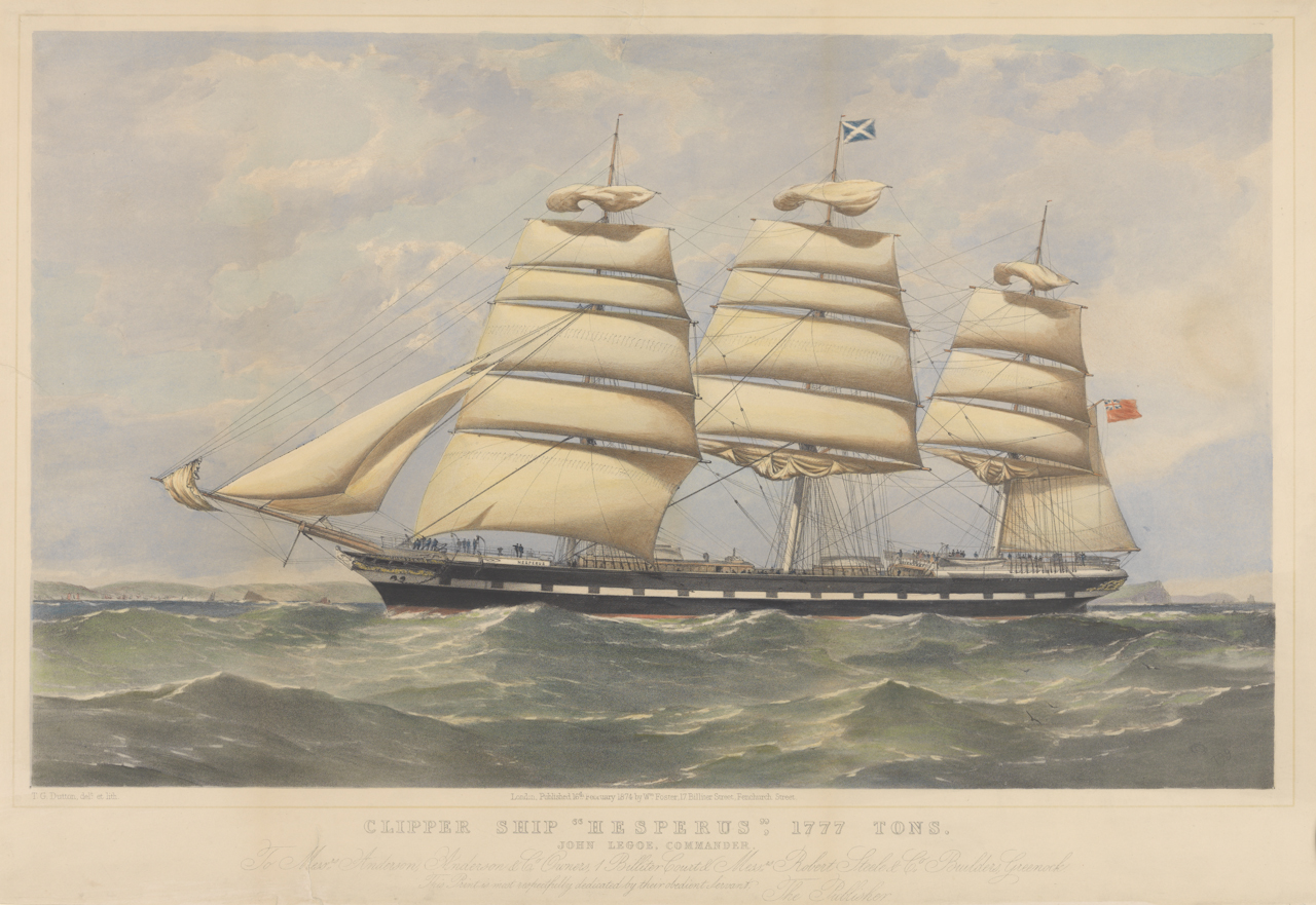 Clipper Ship Hesperus... Messrs Anderson Anderson & Co Owners... & Messrs Robert Steele & Co, Builders, Greenock Print Clipper Ship Hesperus... Messrs Anderson Anderson & Co Owners... & Messrs Robert Steele & Co, Builders, Greenock